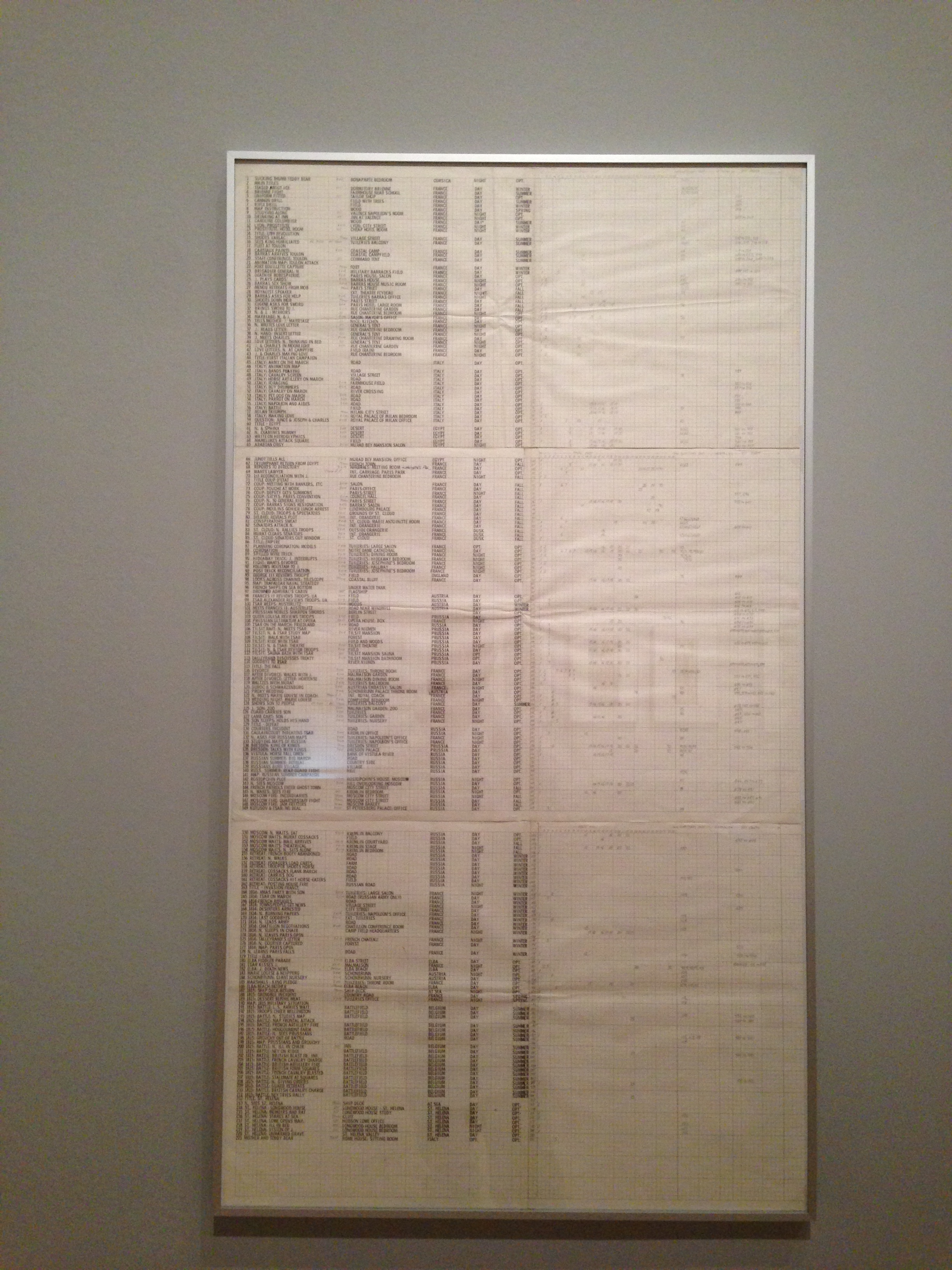 Stanley Kubrick exhibit at Los Angeles County Museum of Art.